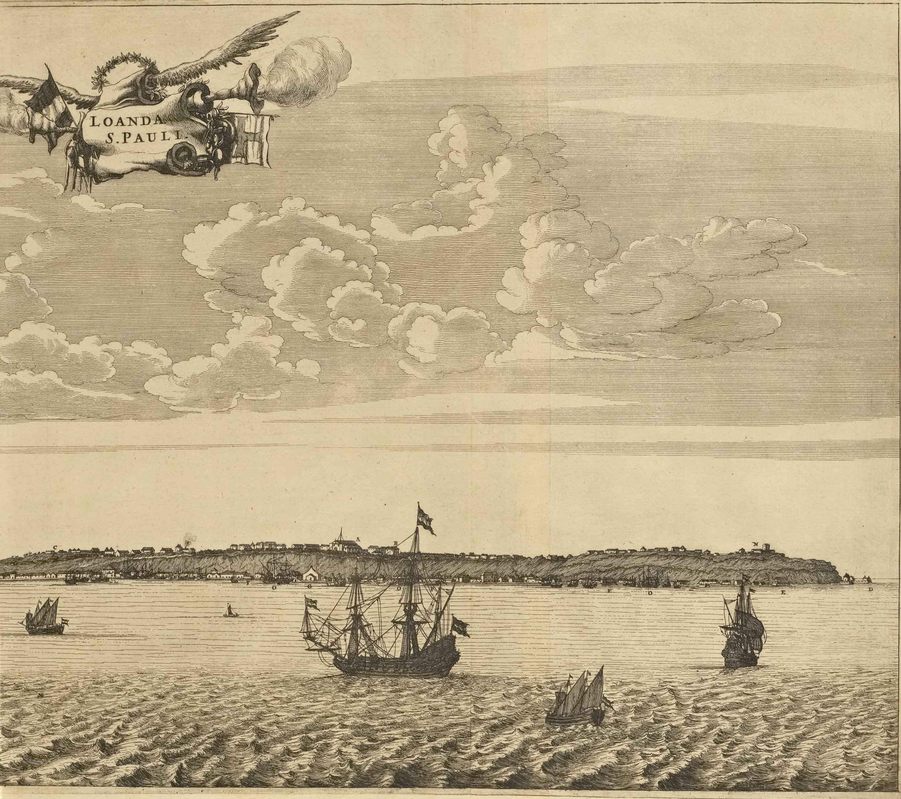 Title: Naukeurige beschrijvinge der Afrikaensche gewesten van Egypten, Barbaryen, Libyen, Biledulgerid, Negroslant, Guinea, Ethiopiën, Abyssinie ... : getrokken uit verscheyde hedendaegse lantbeschrijvers en geschriften van bereisde ondersoekers dier landen Year: 1668 (1660s) Authors: Dapper, Olfert, 1639-1689 Subjects: Publisher: t'Amsterdam : By Jacob van Meurs ... Text Appearing Before Image: ' Text Appearing After Image: Back of T-HingeNot Imaged NEER^ETHIOPIEN. naardien deze Negers zich altijts ver-deden elk op zijne grens-plaetfen.Dan het geheel lantfchap is verdeiltin twee-en-veertigh heerfchappyen,daer van de beftierders Souafèn ge-noemt worden, onder welke al ande-re dorpen en vlekken gehoren, elk nadafmerkinge, van zijn gebiet, datmet palen onderfcheiden is. dEerfte heerfchappye , naeft ge-legen by het lantfchap van Ikollo, isgenaemt Chonfo-, dan vervolgens deandereginsen weder, achter elkan-dretothetvoornoemtgetal;,als,iVtfw?-boa, de naefte aen Chonfo, Qualomba,Bamba, Golungo ,Makao,Kombi,Qui-tendele, Ztombe, QuitaUa, Kamba-kaita j Andalladongo , Sluiambatta,Nambaquiajamba, Kangola, ^uihai-to, Chombe, lyïngolome , Gumbia^Maffingan oïMajJagan,Kaoulo, Ka-hango , Kavanga-pafe , Guenka-Atombe, Hiangonga, Sjuilambe, Qua-panga, Kabanga, Kabuto, Kandal-la, Gougue, Y^ahonda, Kunangonga,Moffungoapofe, Kamanga, Ka/unga,Bagolungo, Qmbilacapft , KoJIaka,Nambua j Kallahanga , Nimenefolo.Deze voorzeide he